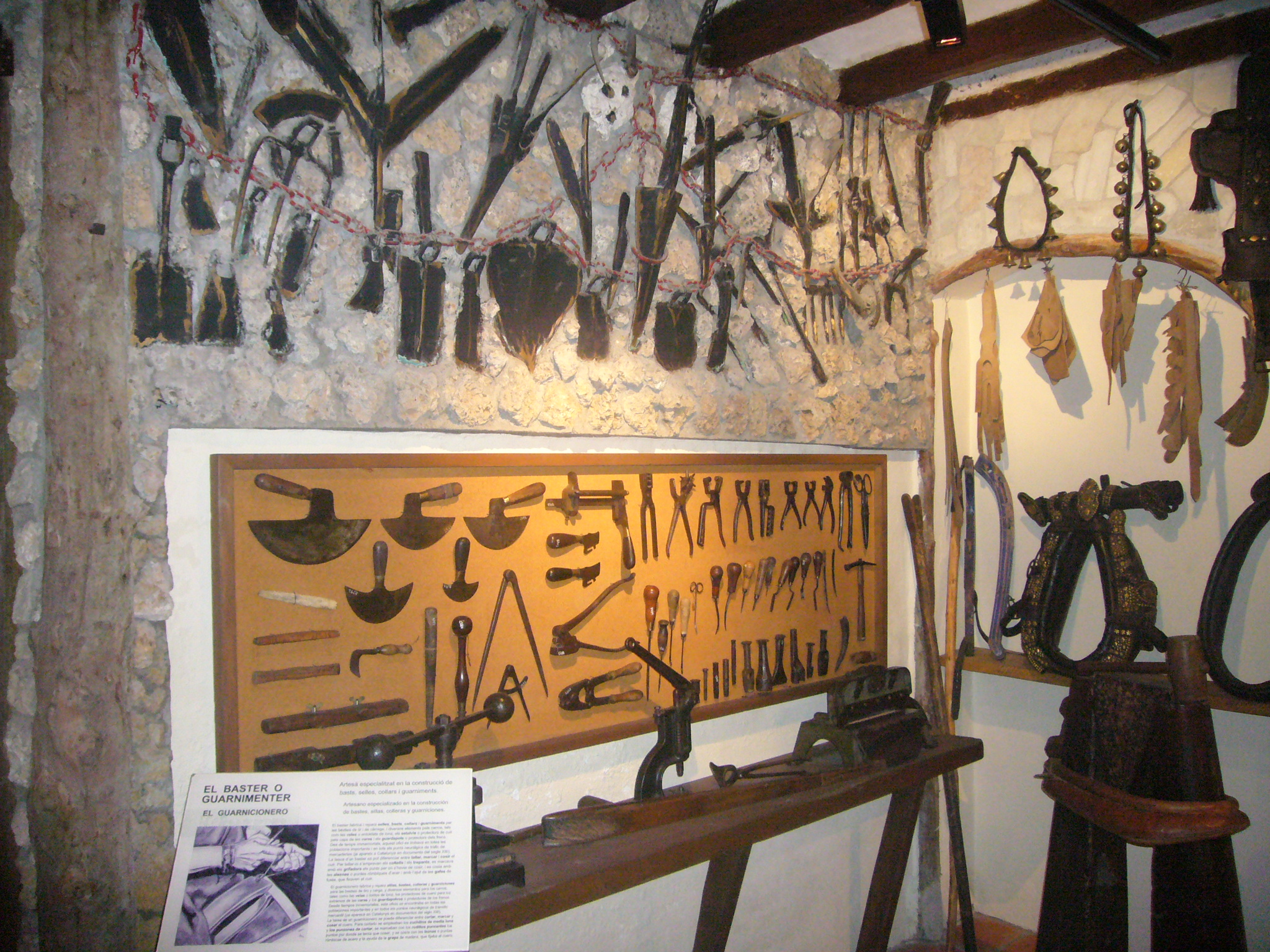 Muleteer's Museum ("Museu del Traginer") located in Igualada, Catalonia. Tools of the saddler.